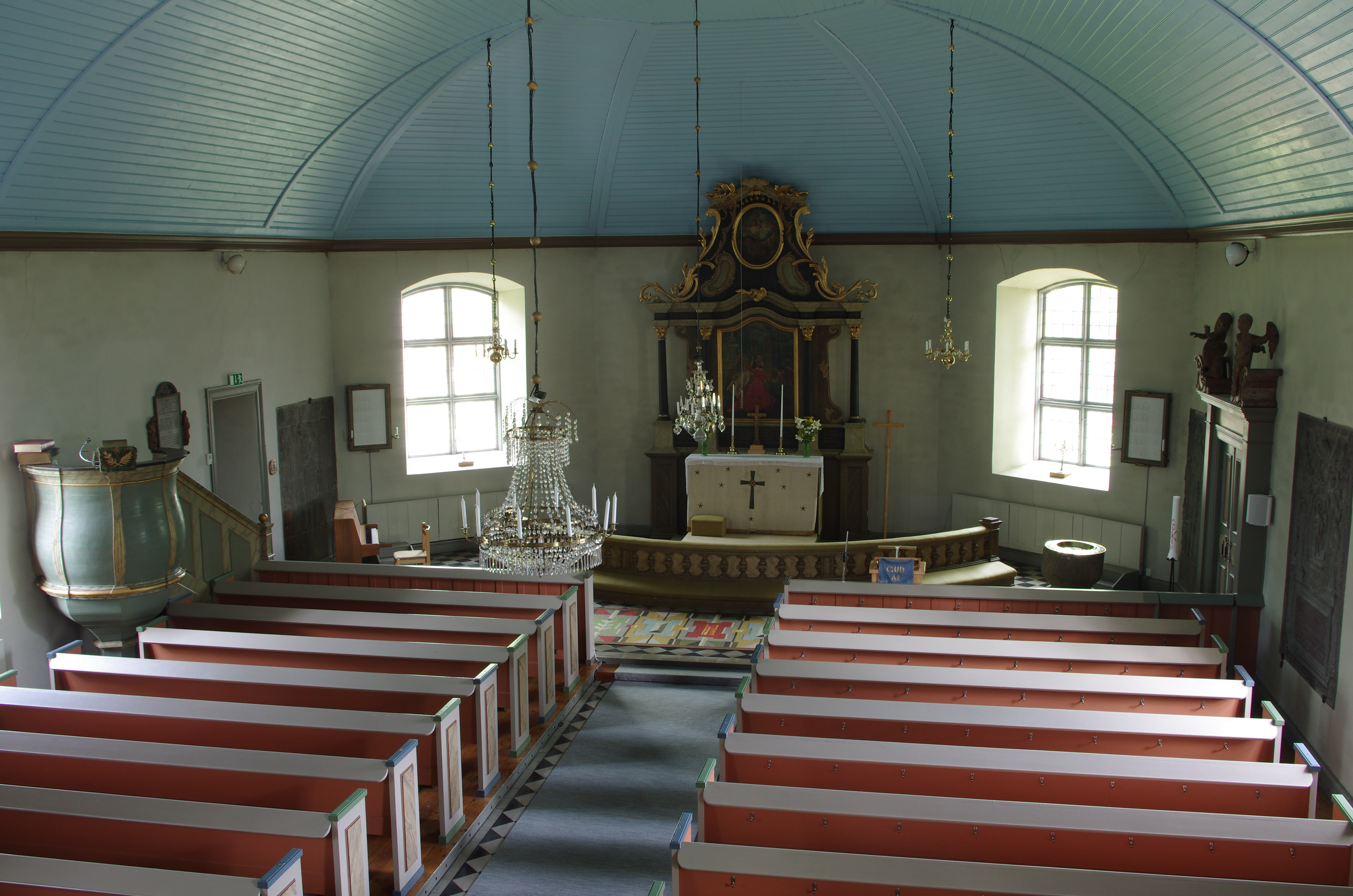 Eggby kyrka (swedish:Eggby church) in Eggby parish in Valle hundred in Västergötland and in Skara municipality in Västragötaland county, Sweden.